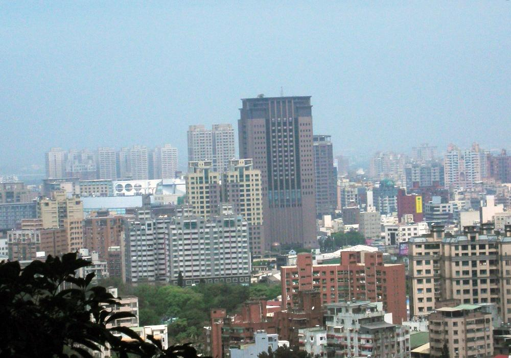 Hsinchu City, Taiwan.